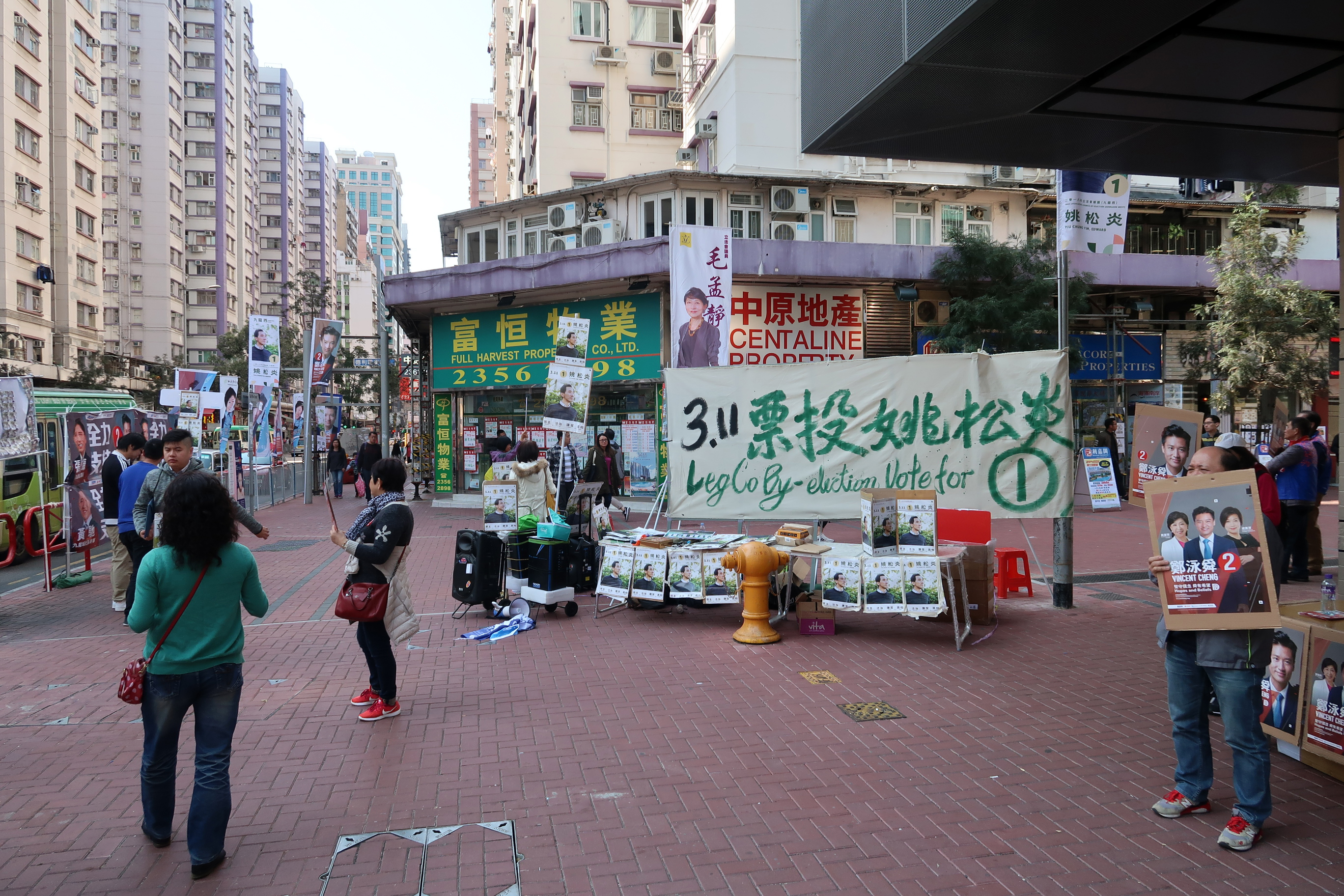 Hong Kong by-election 2018 Hung Hom promotion